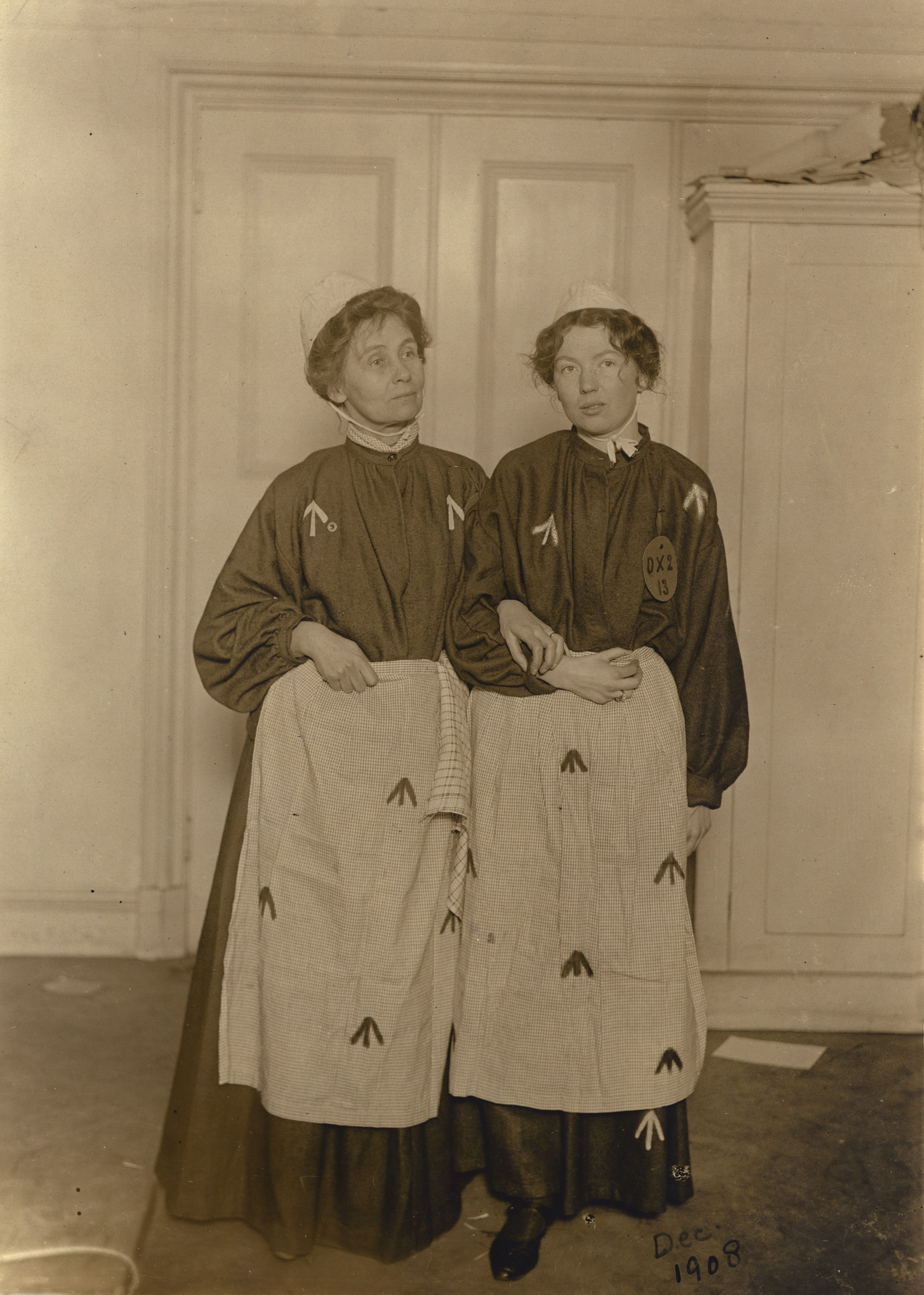 7JCC/O/02/070 Photograph, printed, paper, monochrome, Emmeline and Christabel Pankhurst standing arm in arm, dressed in mock prison garb; manuscript inscription on reverse 'Mrs and Miss Pankhurst. Return this original to design', printed 'Copyright photo. Fee due to Topical Press 10 & 11 Red Lion Court, Fleet Street, London EC'